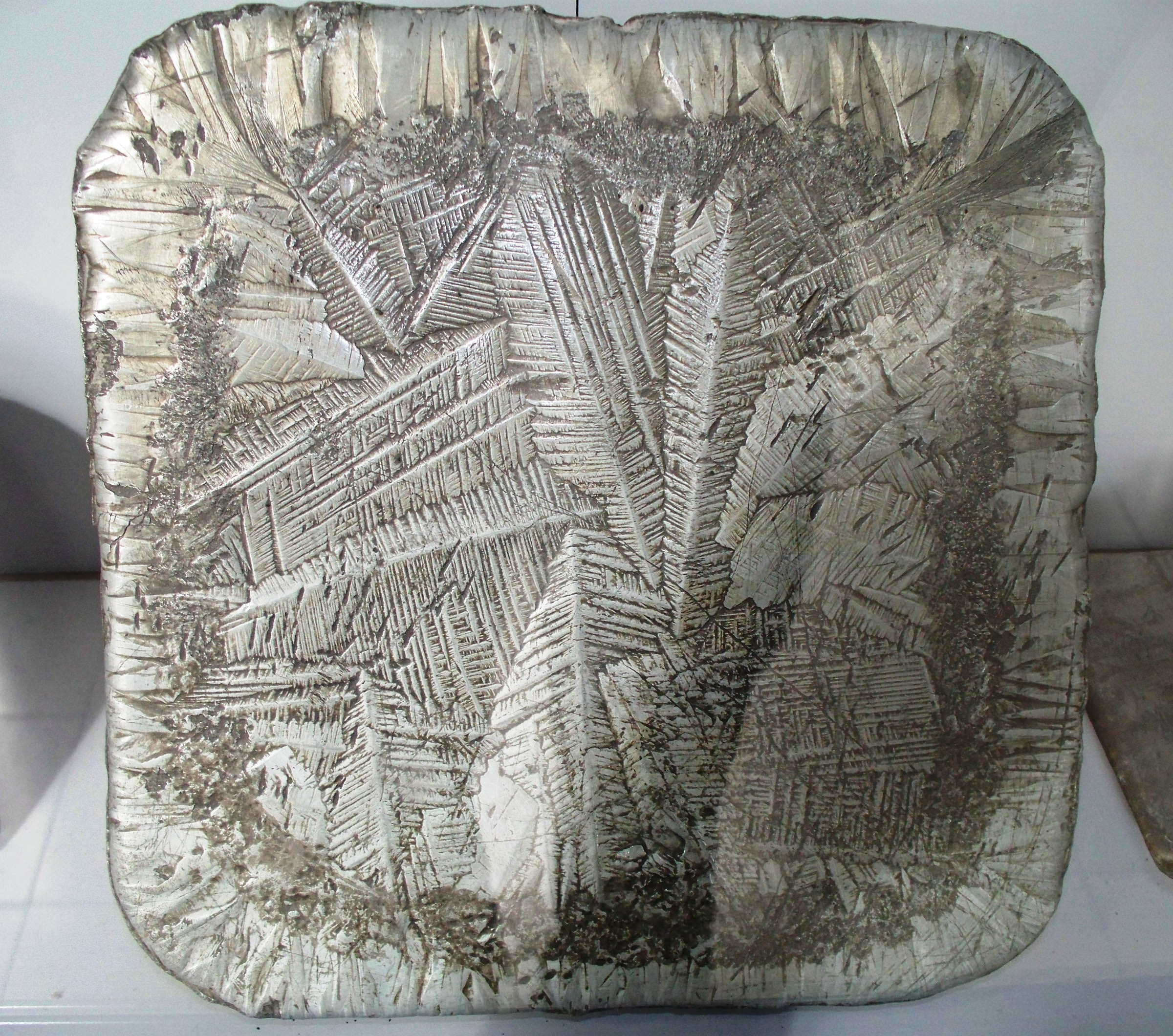 Antimony ingot in the Deutsches Museum in Munich